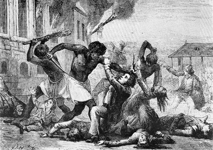 Haitian Revolution. Blacks murdering white civilians